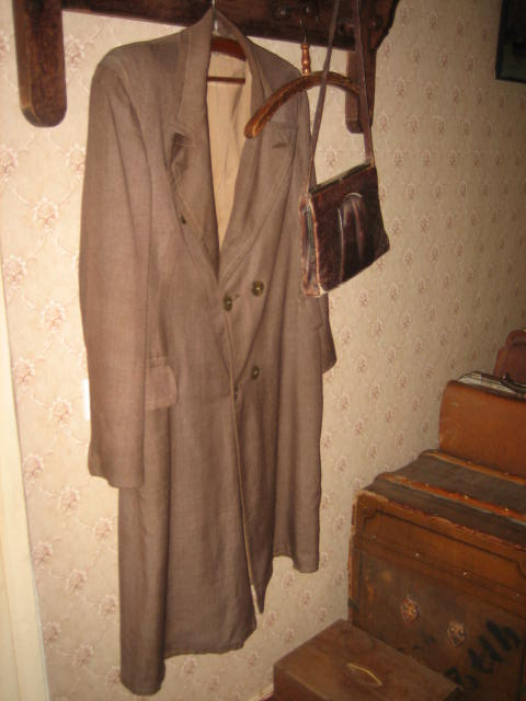 Coat of Nikolai Punin, formerly the third husband of Anna Akhmatova. This coat was kept at the place on purpose after his arrest as a memorial.